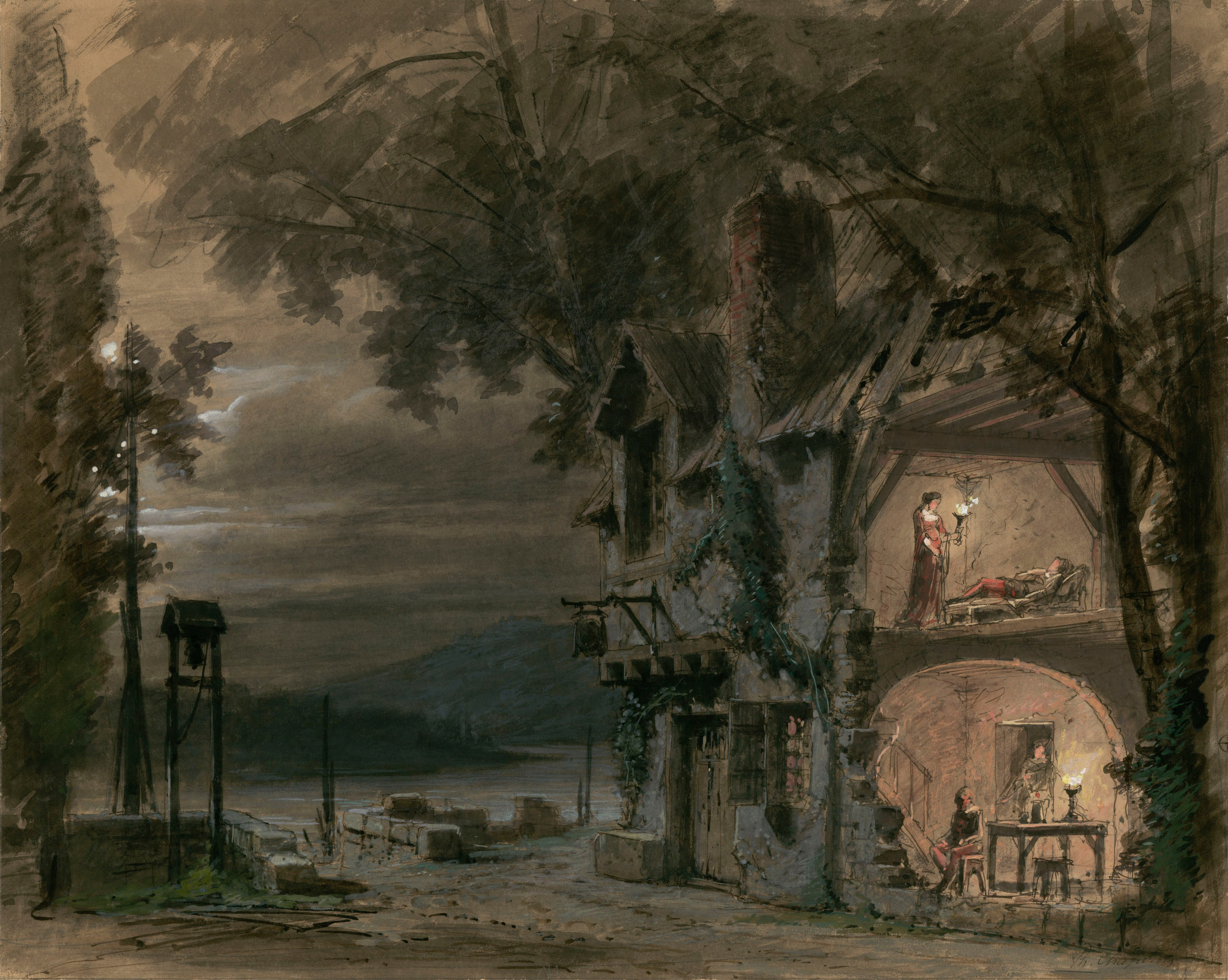 Set design for act "IV" (III as normally counted) of Giuseppe Verdi's Rigoletto. (For the production of the Théâtre national de l'Opéra at the Palais Garnier that opened 27-02-1885)